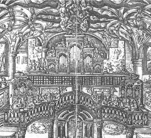 Schlosskapelle Residenzschloss Dresden